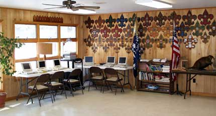 Lounge in the Administration Building, Henson Scout Reservation, near Galestown, Maryland.